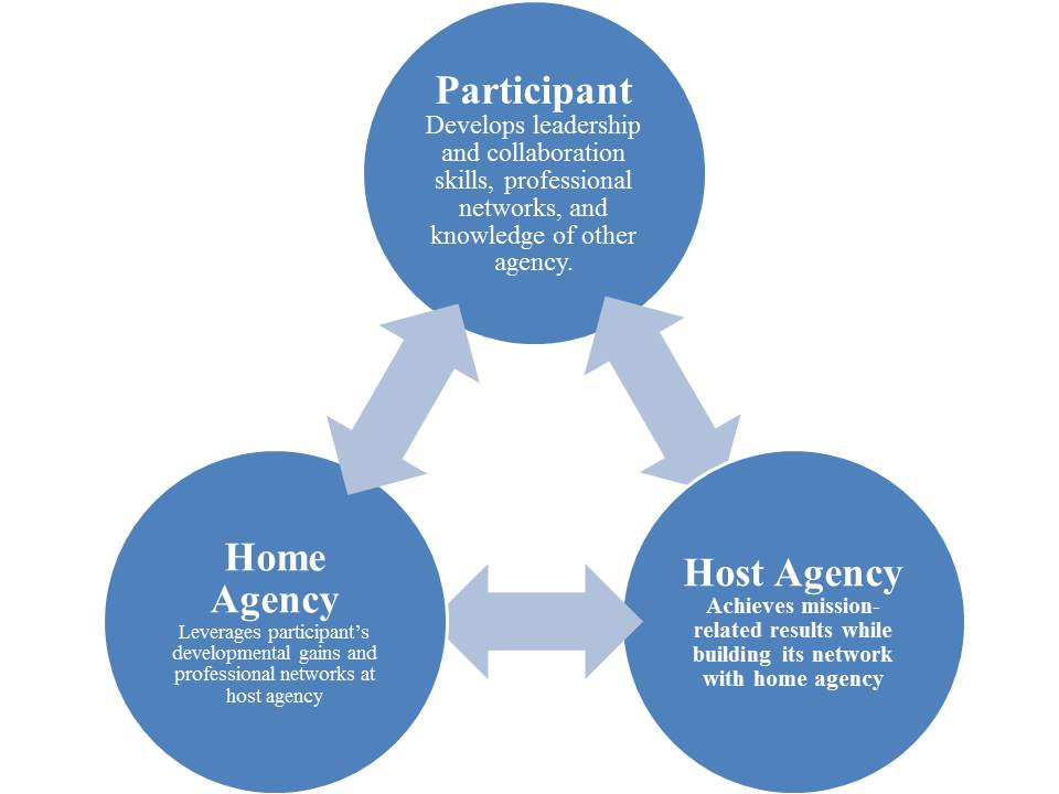 Successful Interagency Rotation Programs—A Win-Win for Participating Individuals and Organizations